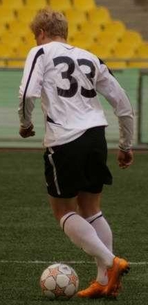 Dmitry Sysuev as a player of FC Torpedo Moscow